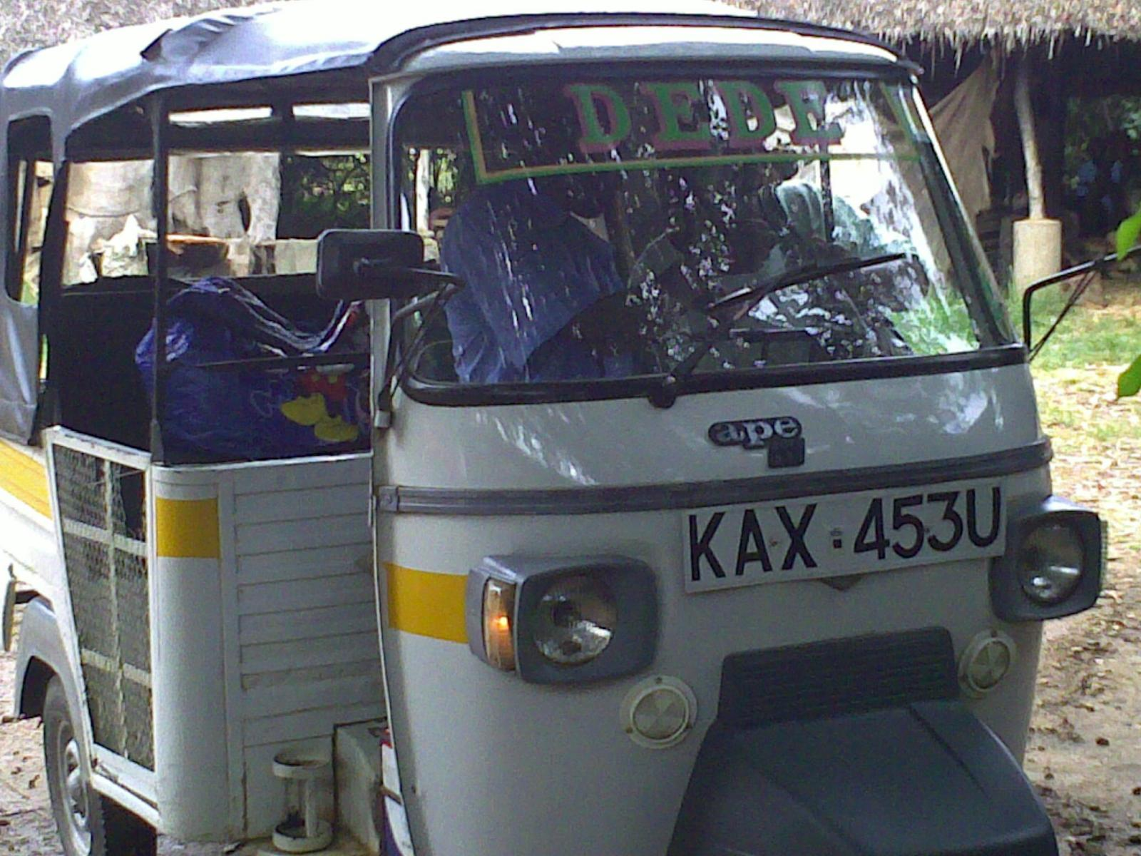 Tuk-Tuk named Dede in Watamu (Kenya). Dede means insect in swahili.